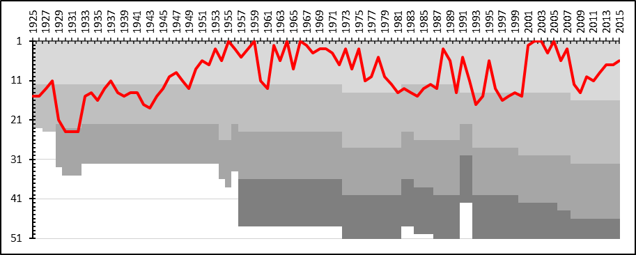 A chart showing the progress of Djurgårdens IF through the Swedish football league system. Horizontal black lines represent league divisions.